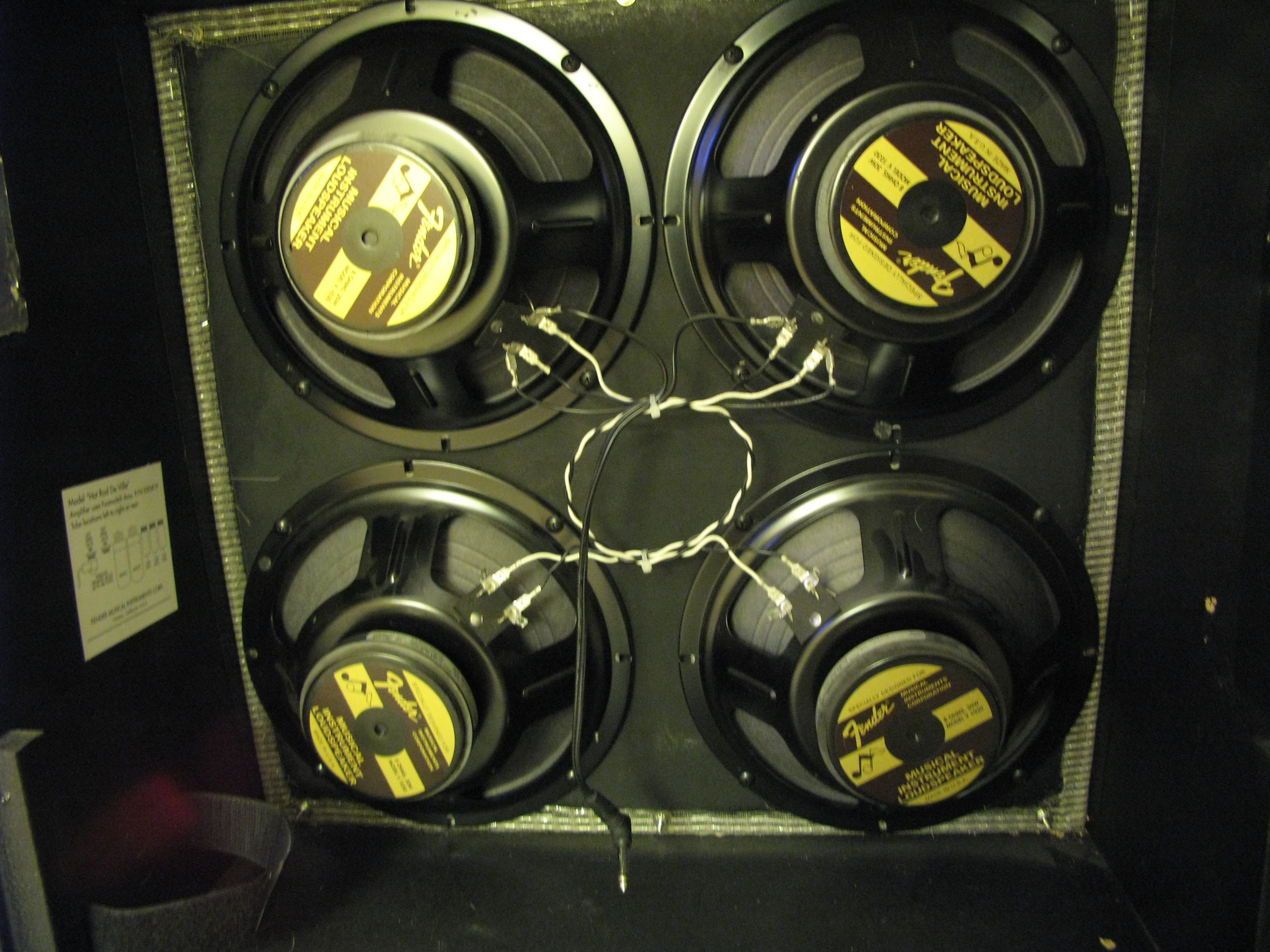 The main speaker cabinet of a Fender Hot Rod Deville 410 with the amplifier and reverb removed. Photo taken by myself in June 2009.